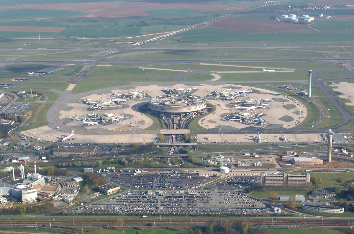 Terminal 1 at Charles de Gaulle (Roissy) Airport (CDG/LFPG) in Paris, France